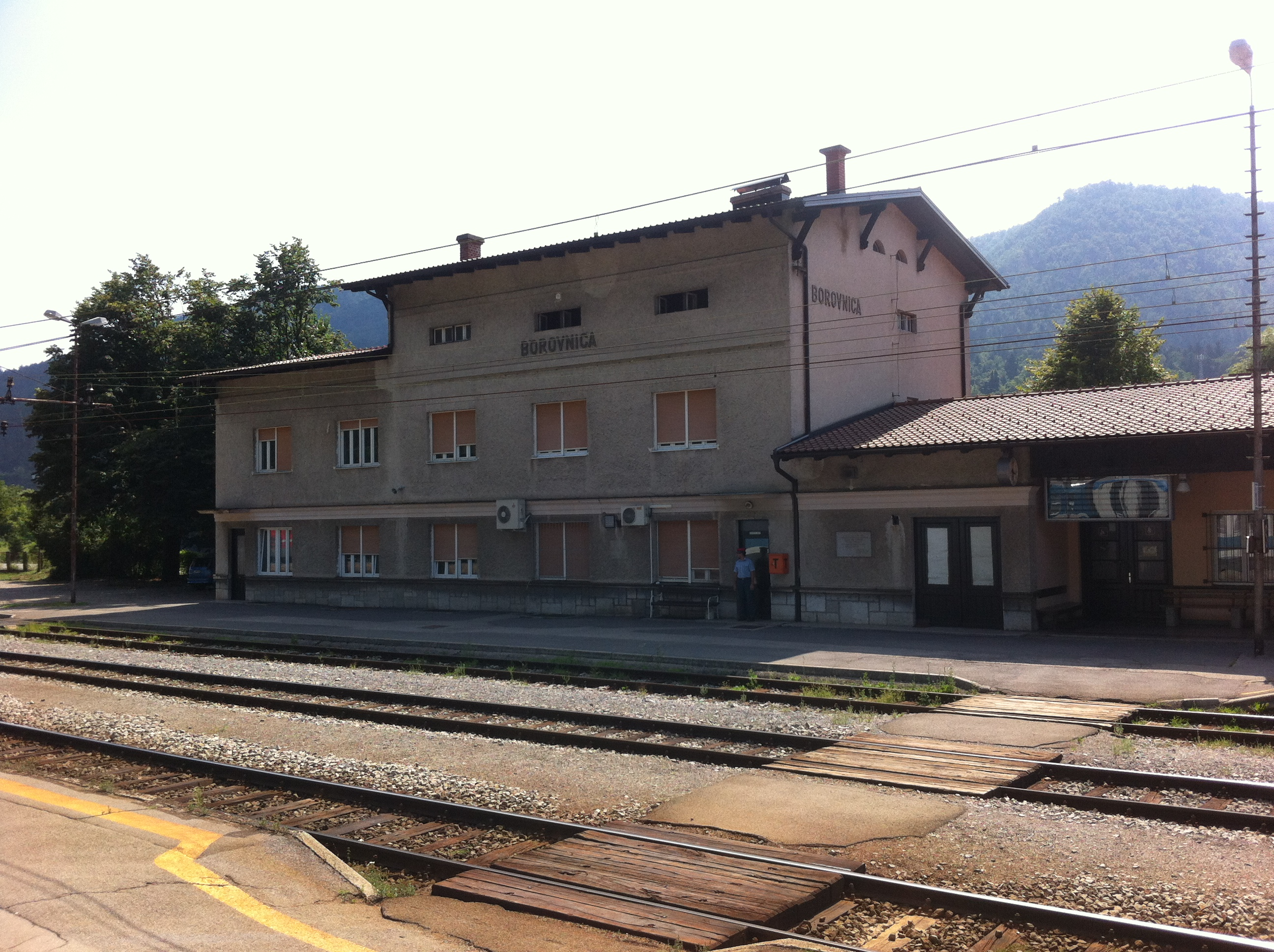 Borovnica train station